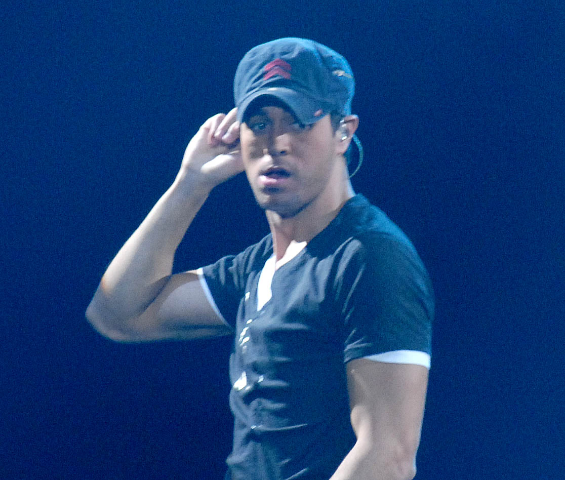 Enrique Iglesias, Vilnius, Lithuania 2007.11.29